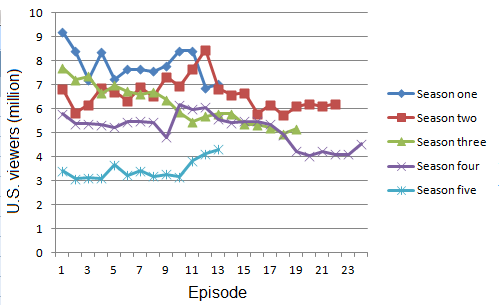 Line graph of U.S. viewers of Chuck.